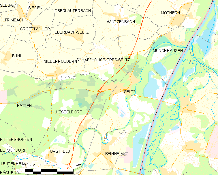 Map of French municipality